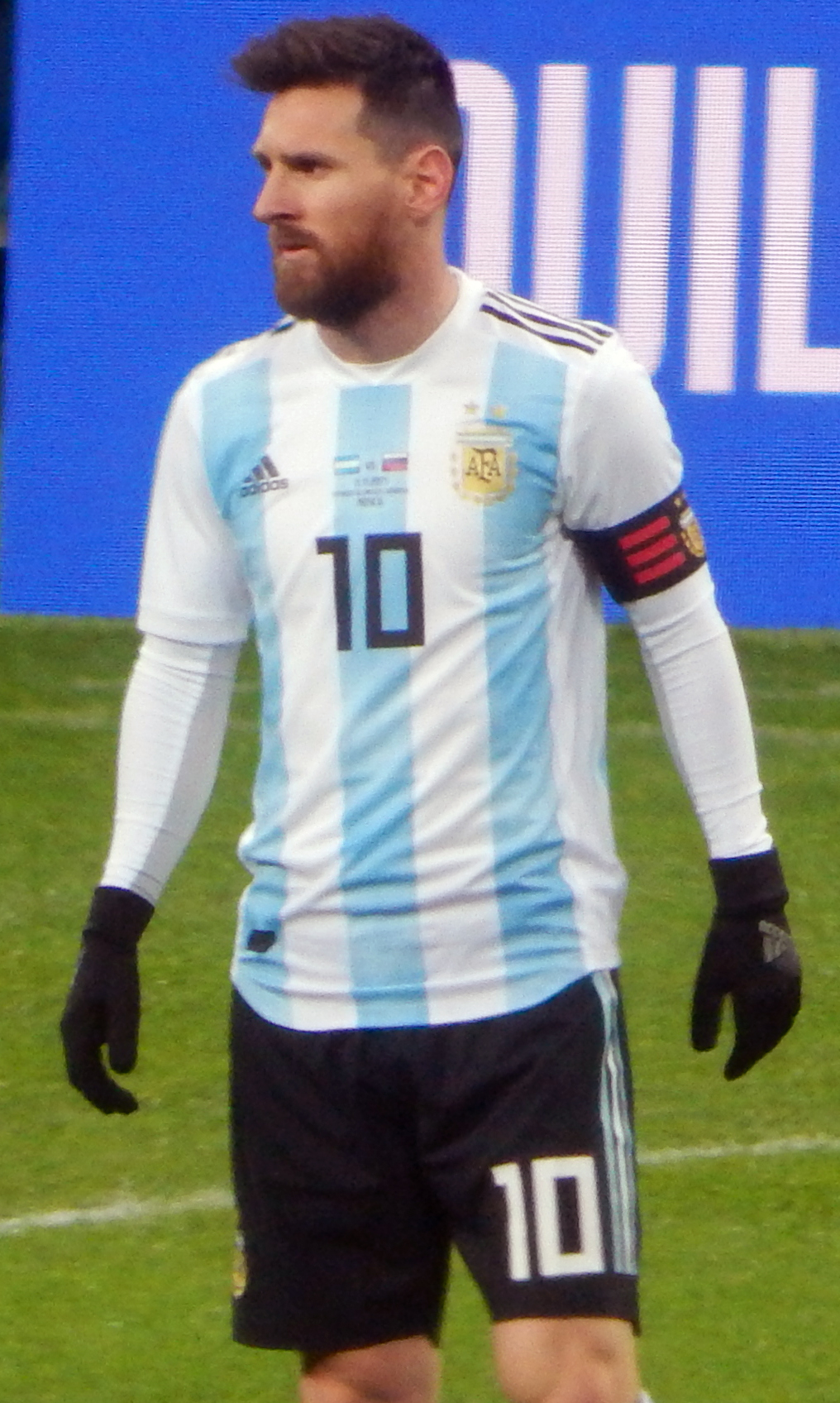 A friendly match between Russia and Argentina in Moscow, Luzhniki stadium, on November 11, 2017.